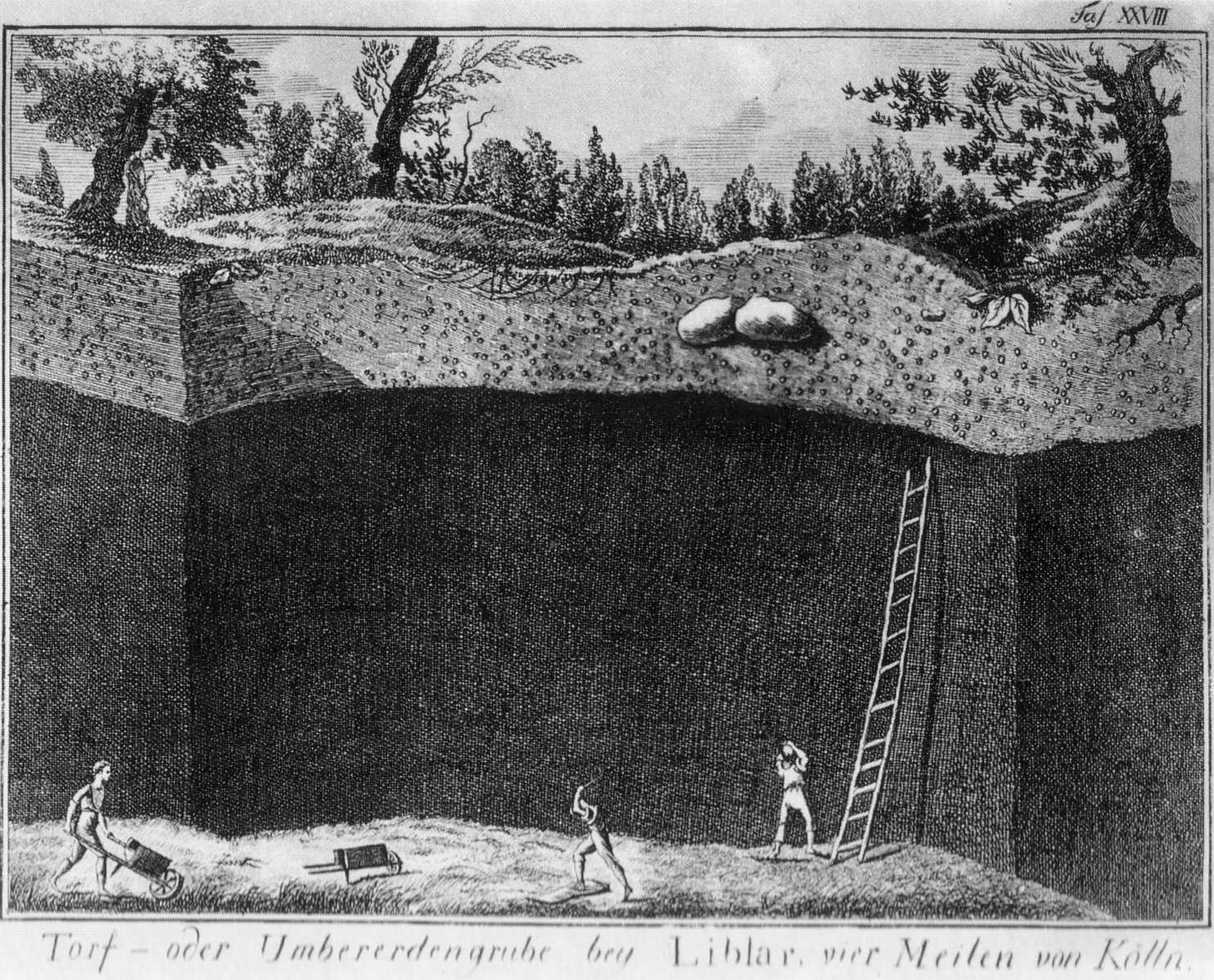 Engraving, "Peat or umber pit at Liblar, four miles from Cologne"